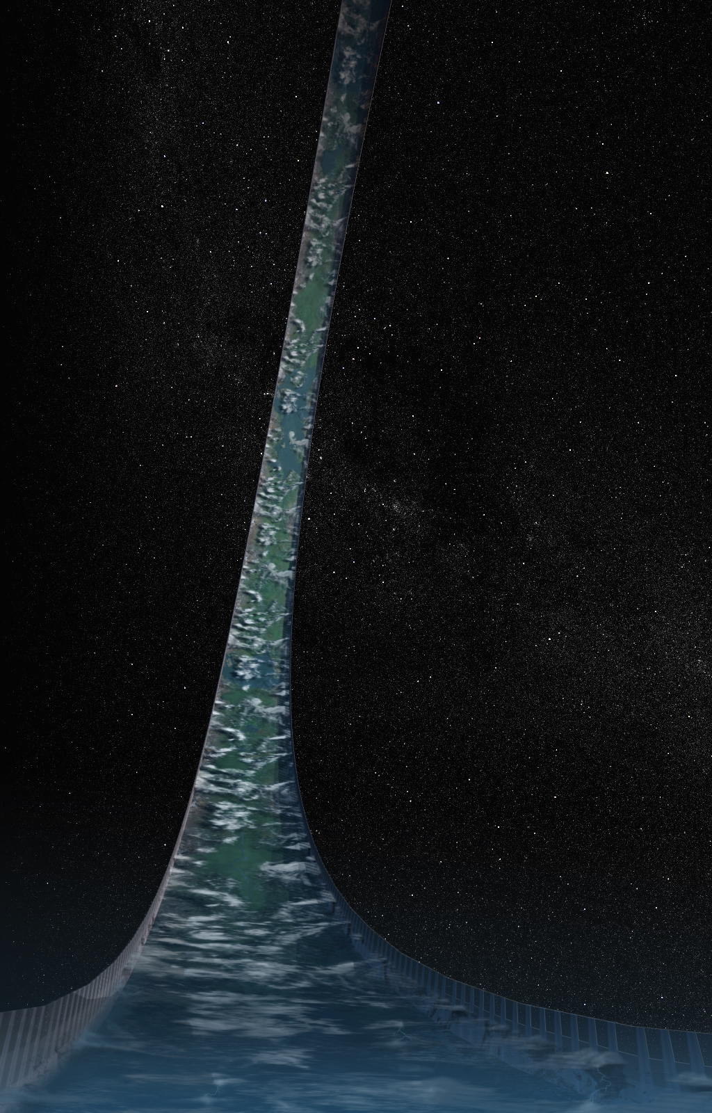 A 3D model of a Culture's orbital